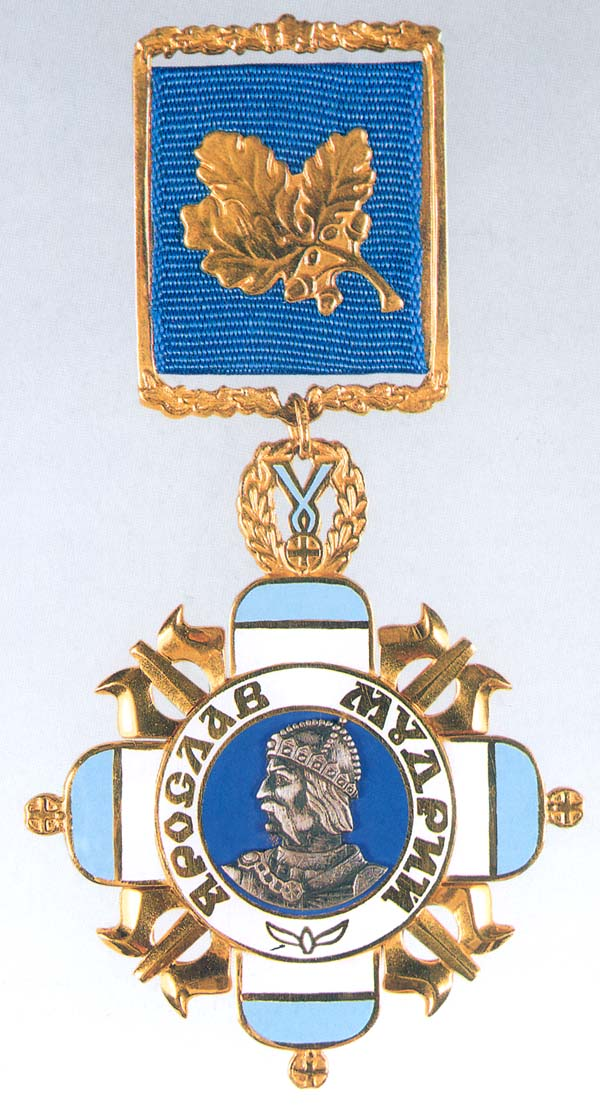 Order of the Yaroslav the Great